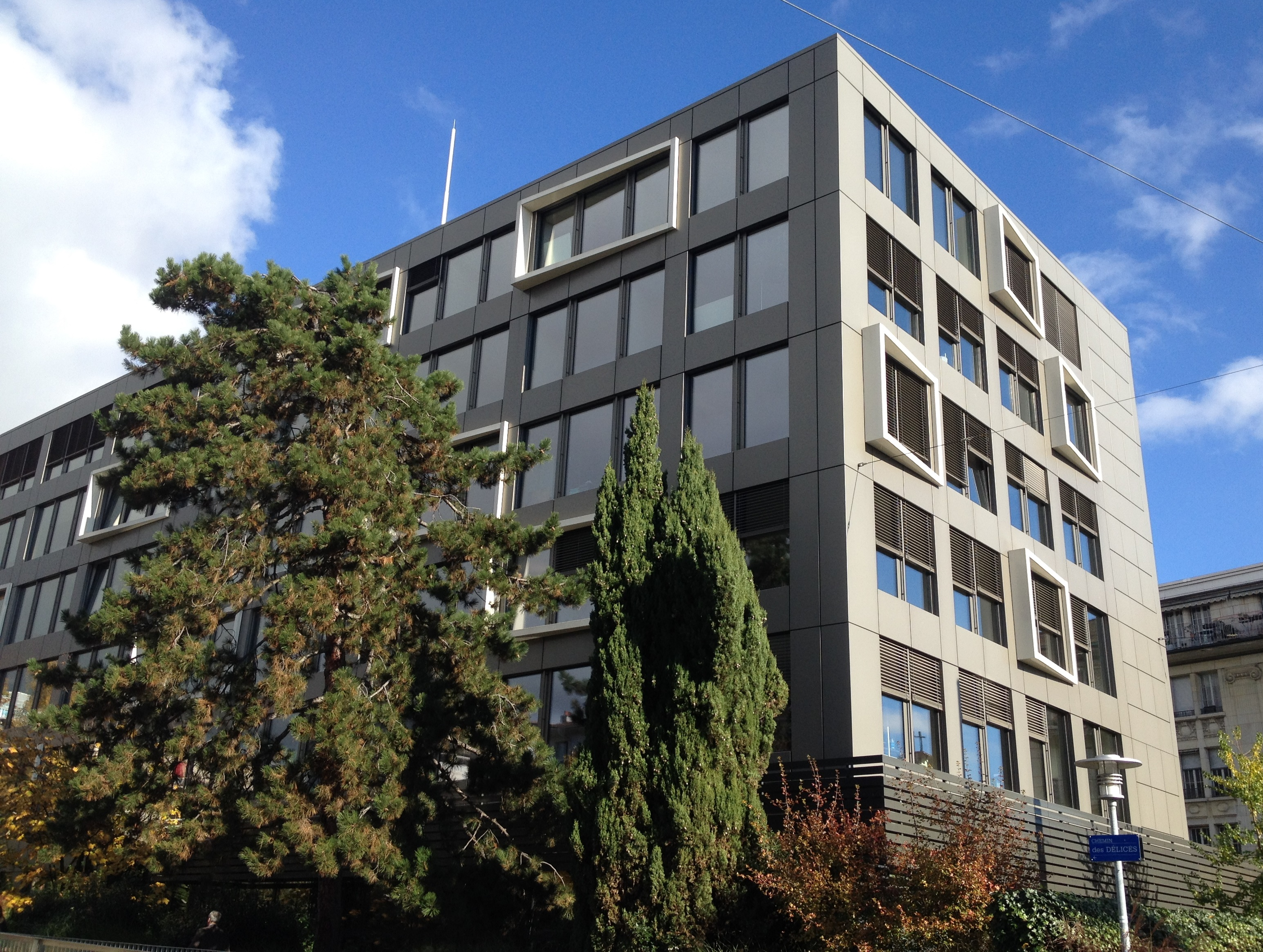 The King Hussein building, headquarter of the International Federation for Equestrian Sports, Lausanne, Switzerland.